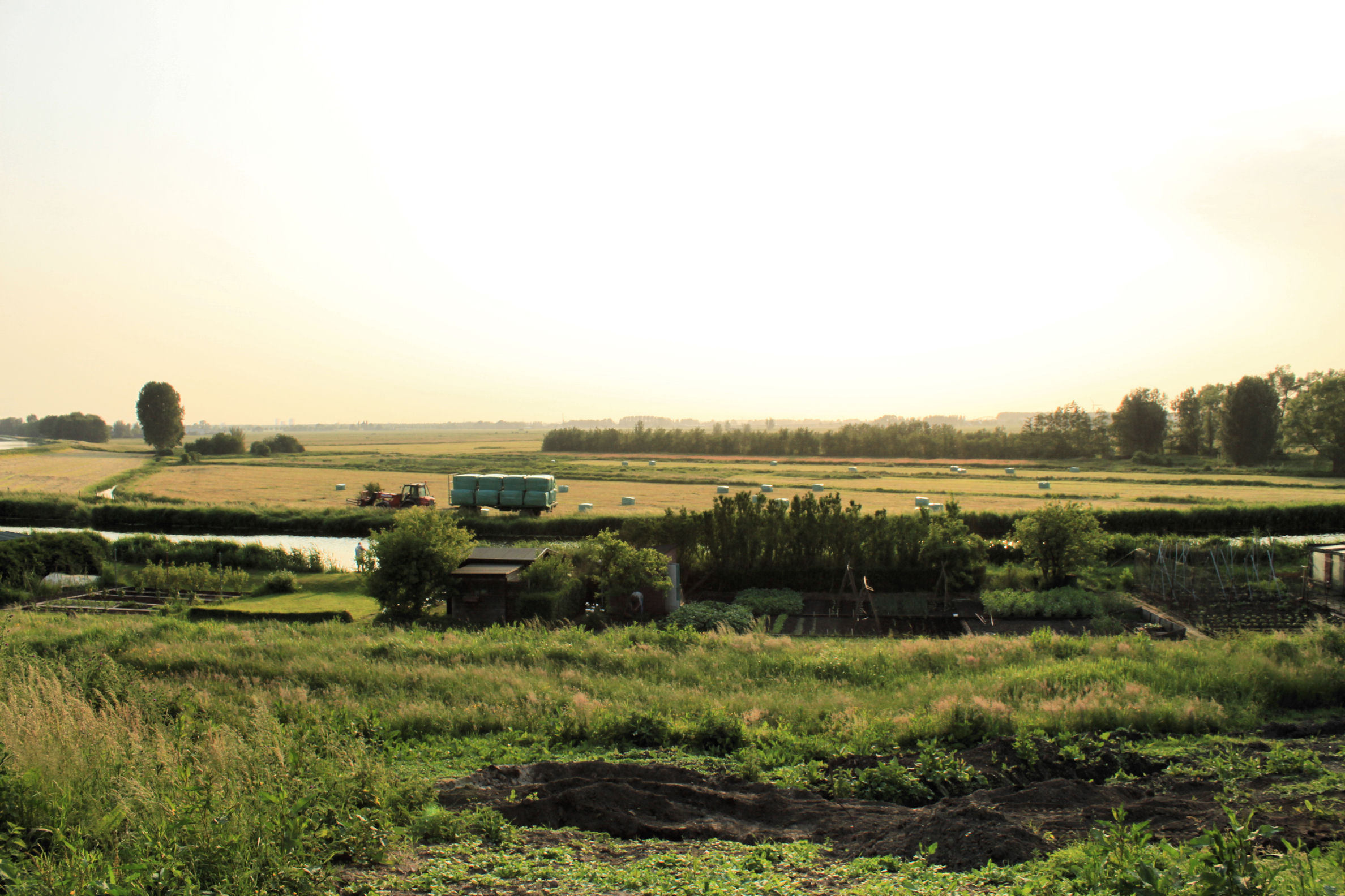 Westergouwe, Gouda